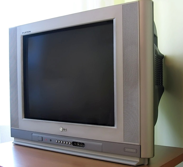 LG tv-set